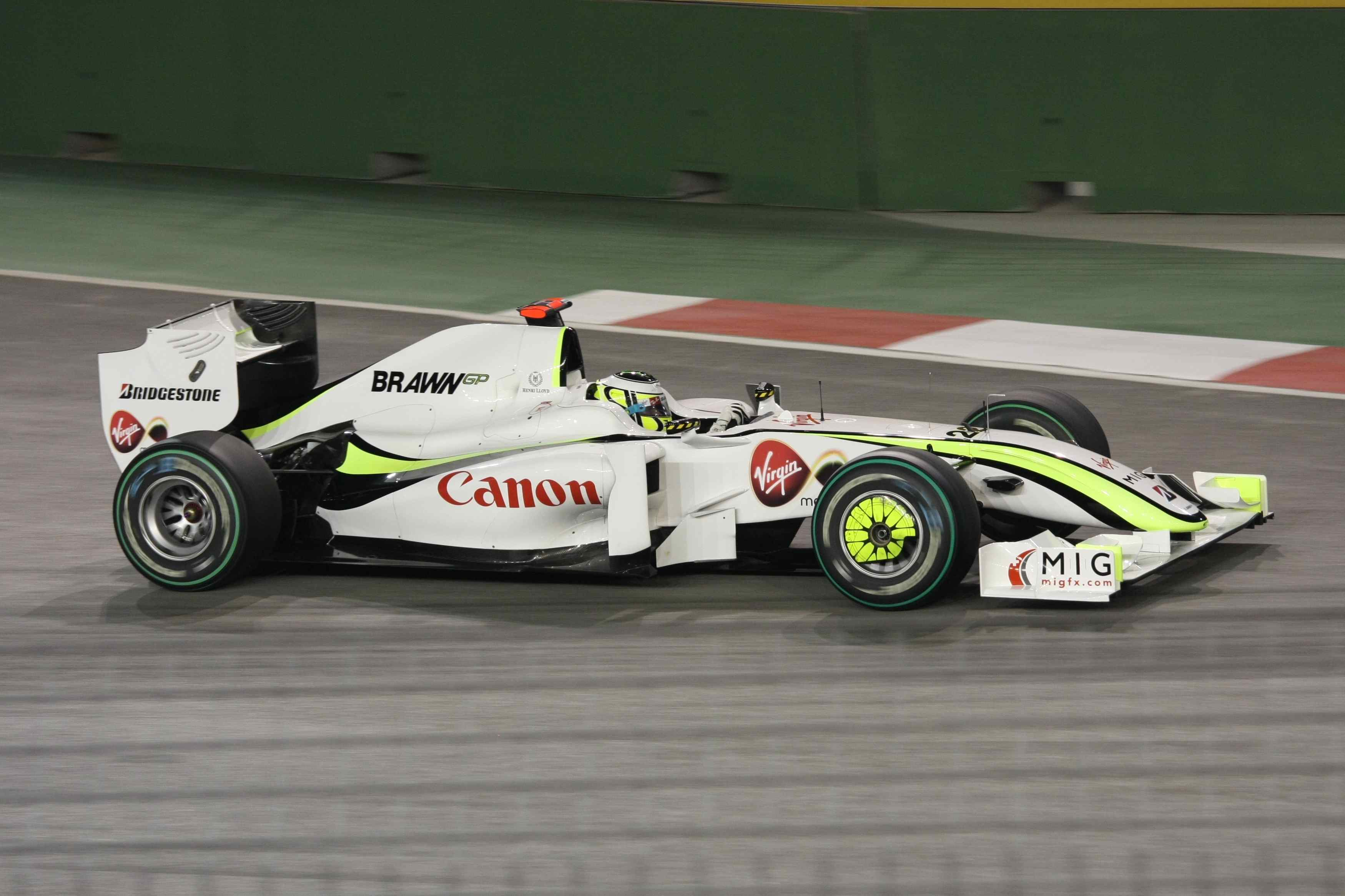 Jenson Button driving for Brawn GP at the 2009 Singapore Grand Prix.